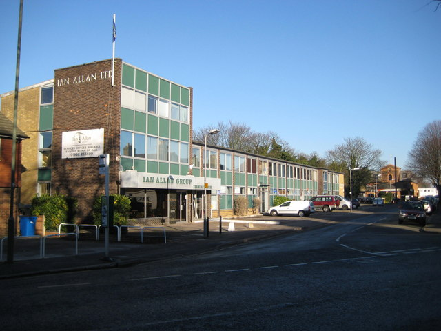 Shepperton: Ian Allan Ltd "Boys" of, ahem, a certain age will remember Ian Allan with affection for it was he who first produced and printed the ABC series of booklets containing lists of railway engine numbers. Later his company diversified into travel and motors amongst other interests. This is the group's Shepperton building in Station Approach, constructed in 1963 and reputedly containing and incorporating a 1922 Pullman coach as part of the fabric of the structure. The coach is said to be in use as the company's board room. Ian Allan himself began his working life as a 15 year old clerk in the office of the General Manager of the Southern Railway at Waterloo station, rapidly rising to a position in the publications department where he learned about the printing and publication of the railway's customer magazine. His suggestion to the management that in view of the number of enquiries he had received from members of the general public a booklet containing details of all the steam engines operated by the Southern Railway would be a popular money spinner was turned down, but he was given permission to publish it himself subject to him taking on board all the costs and risks. The rest is history...